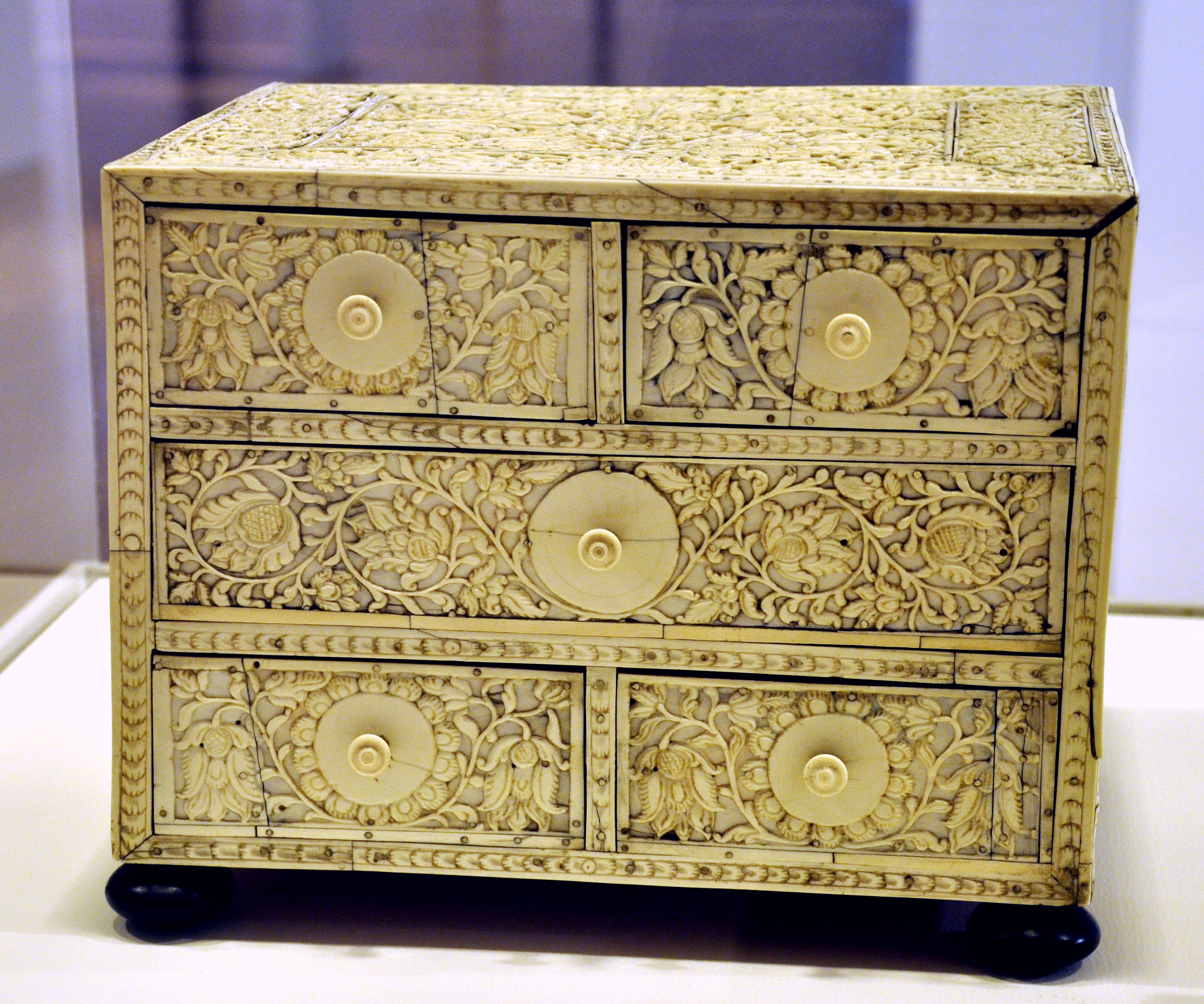 Ivory jewel case; India, Mughal court, beginning of 18th century; ivory and velvet; Museum für Angewandte Kunst Frankfurt am Main, Inv. No. V. 329